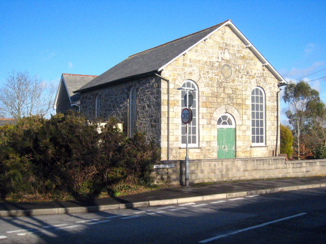 Converted chapel at Trelowth, near to Trelowth, Cornwall, Great Britain. The plaque in the gable reads 'UMFC 1872' - presumably United Methodist Free Church. It is now a private dwelling.